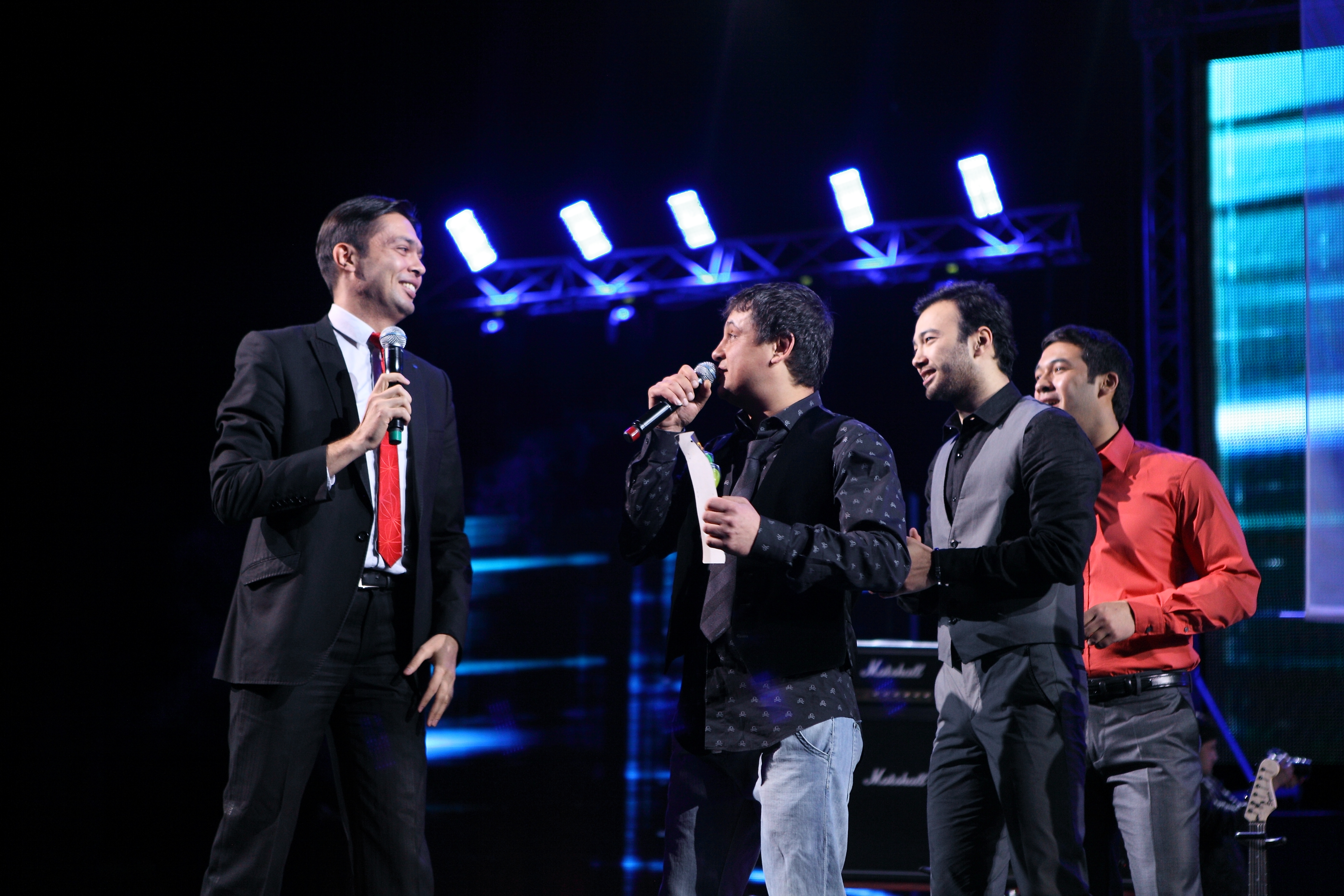 Otabek Mahkamov, Tohir Sodiqov, Alisher Uzoqov, and Ulugʻbek Qodirov